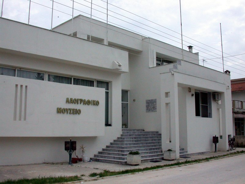 Exteral view, image from the Historical and Ethnographical Museum of the Cappadocian Greeks, Nea Karvali, East Macedonia, Greece